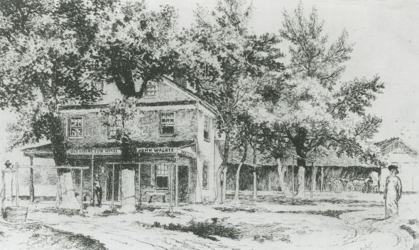 The Rising Sun Tavern, etching by Joseph Pennell, 1880.Courtesy of the Library of Congress "Today's Bethlehem Pike was an Indian trail before colonists widened it into the "King's Road," connecting Philadelphia to the Lehigh Valley. Originally opened in 1746 at the fork with the Old York Road, the Rising Sun Tavern served as a gathering place where men could meet and discuss the momentous events of the day. What would become the Pennsylvania Abolition Society was founded there in 1775, when abolitionists agreed to take up the case of Dinah Nevill, a black woman whose insistence that she was free-born helped fuel the anti-slavery movement in America."